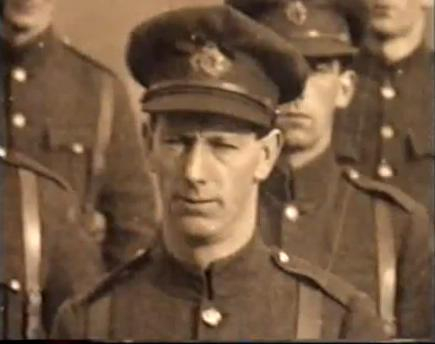 close up of o Daly in uniform